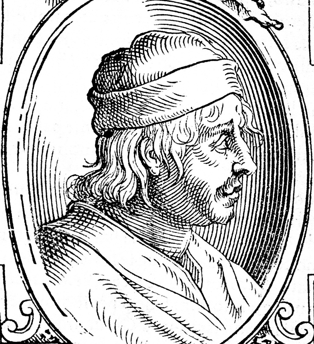 Portrait of Botticelli from Vasari's Lives of the Most Excellent Painters, Sculptors, and Architects